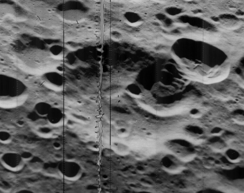 Oblique view of Klute, on the far side of the moon, facing west. Band crossing image is artifact of original.